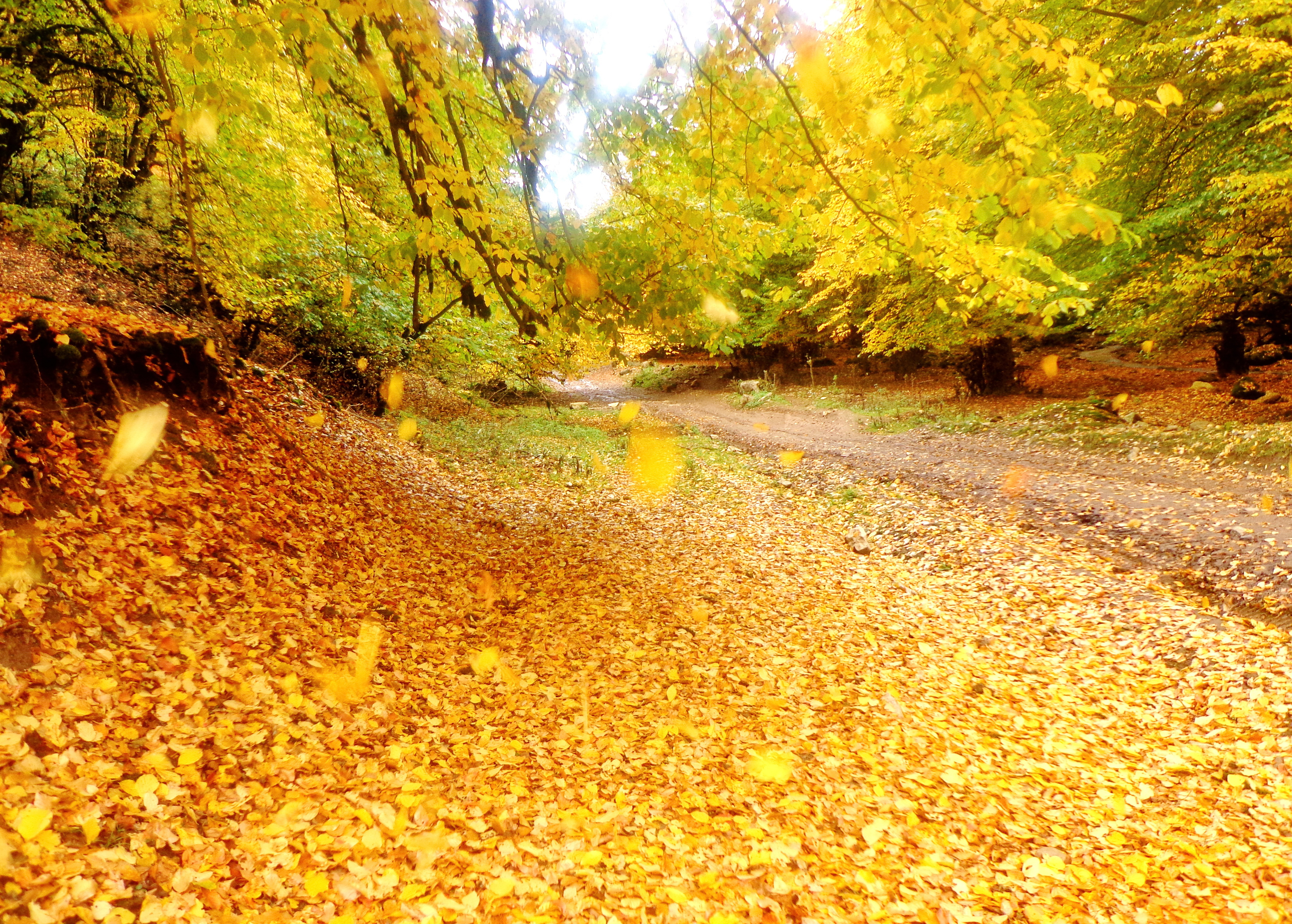 جنگل نیلبرگ یکی از زیباترین مناطق در پاییز، نام نیلبرگ در قابوس نامه آمده است.